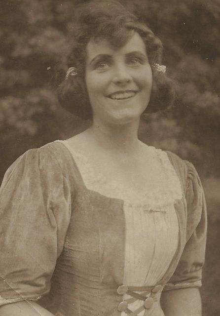 Photograph of the Danish actress Gudrun Houlberg (1889-1940)